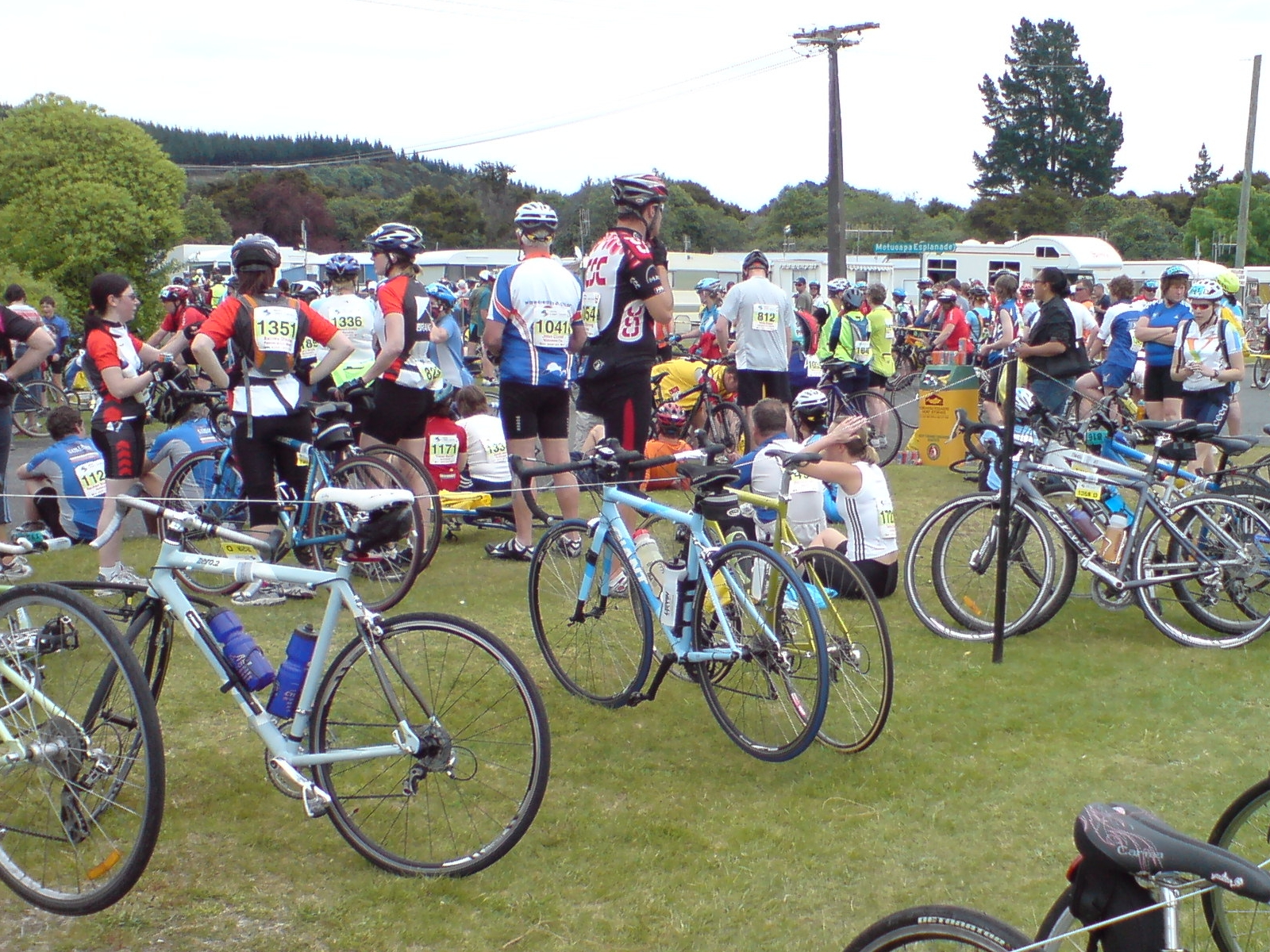 Lake Taupo Cycle Challenge 2007 - Saturday afternoon, relay riders at Motuoapa (D Leg) waiting for the previous rider of their team (C Leg), yet unclaimed bikes waiting in the front. Motuoapa , Lake Taupo, New Zealand.